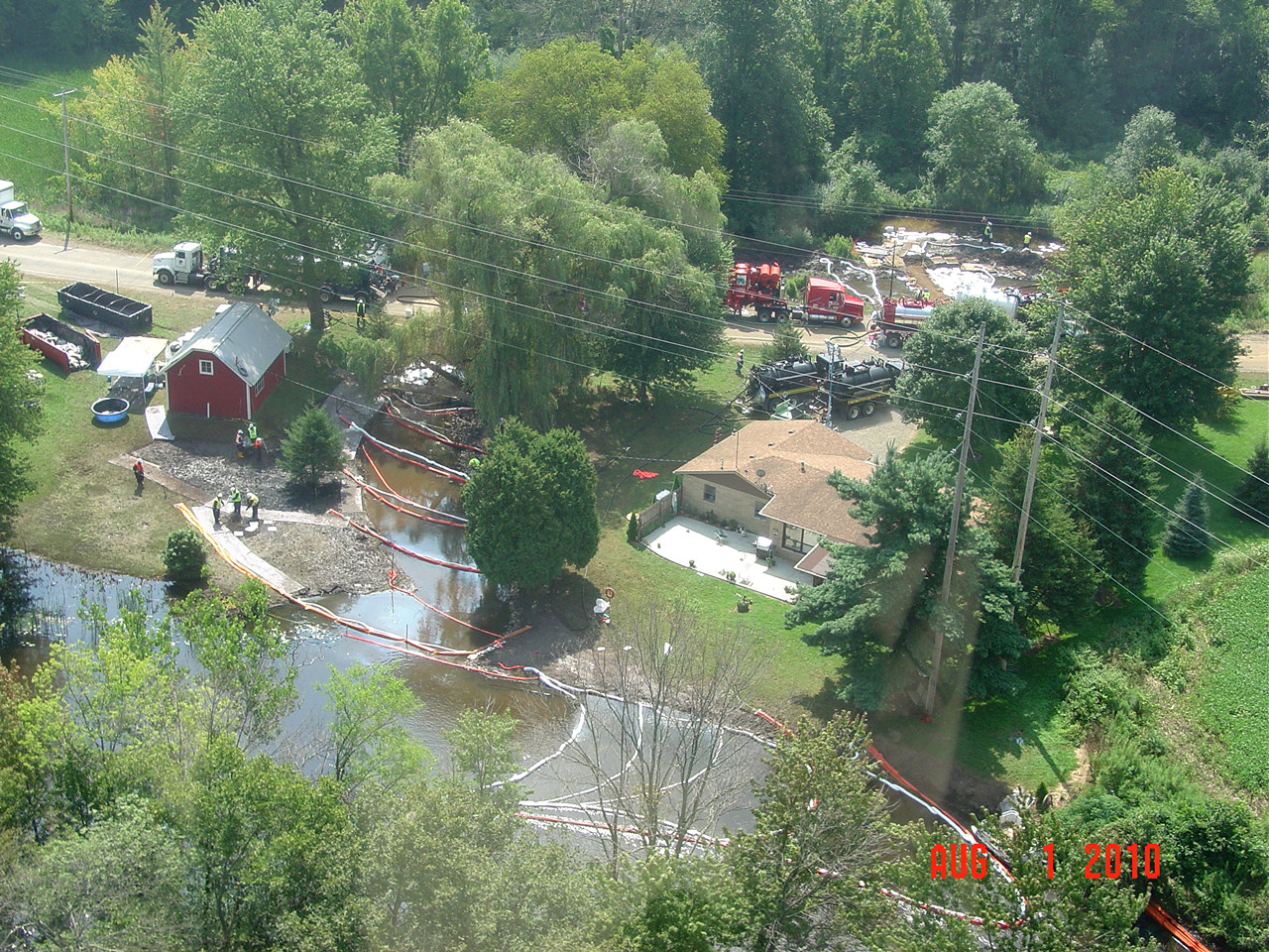 August 1, 2010 - Response operations in residential area at confluence of Talmadge Creek and Kalamazoo River. Learn more about EPA's response to the Enbridge oil spill